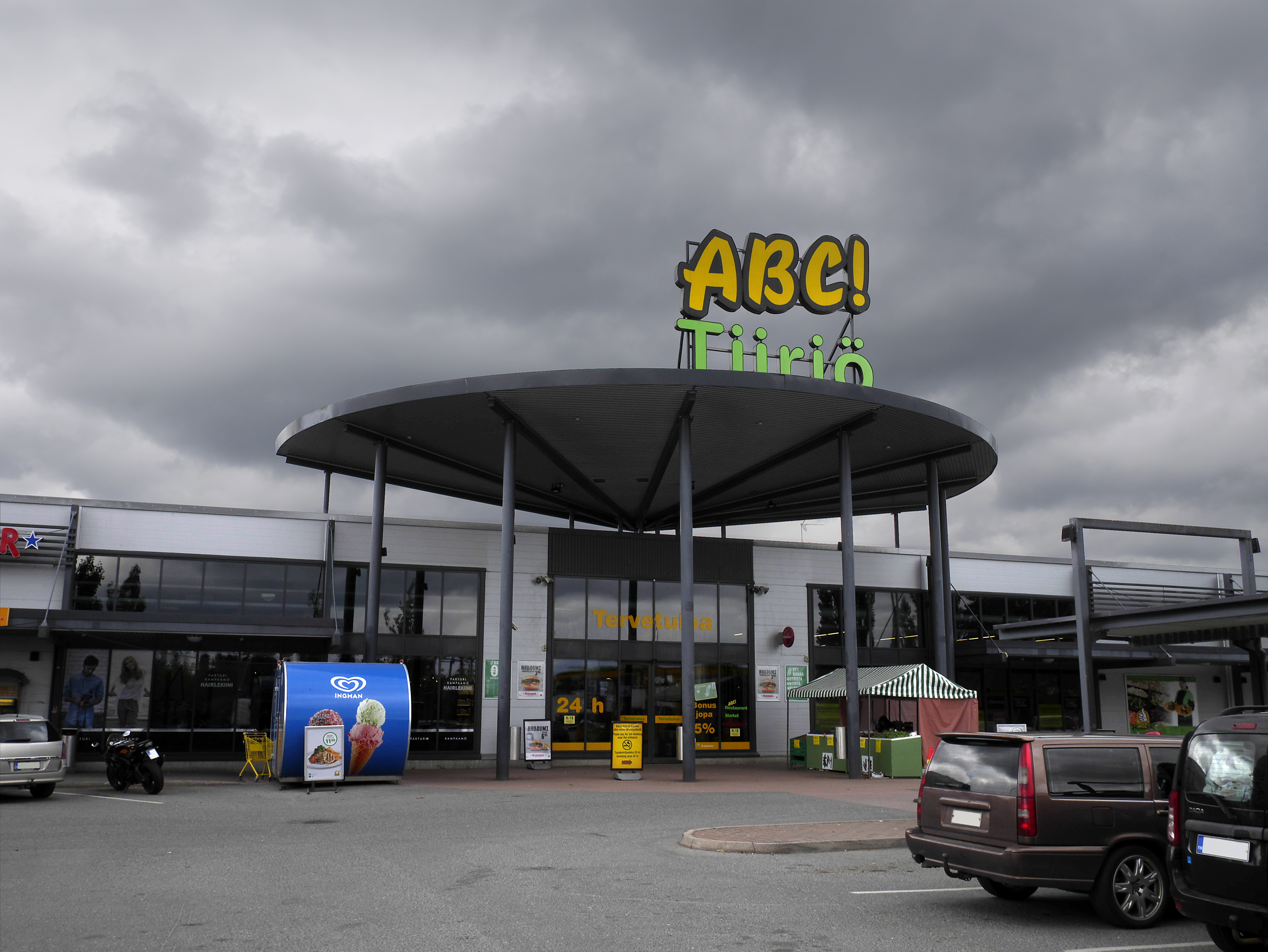 ABC petrol station in Hämeenlinna, Finland.